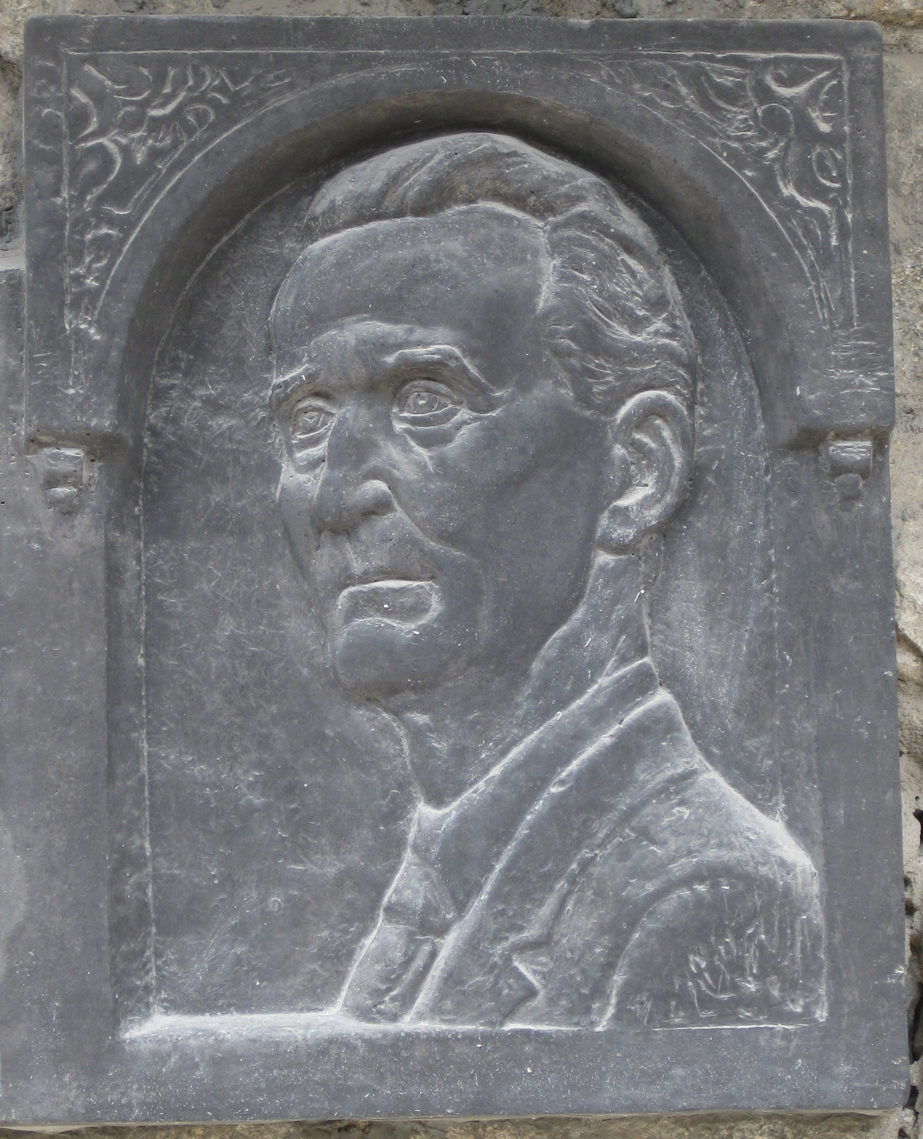 Monument to Nikola Alvadzhiev, Plovdiv, Bulgaria